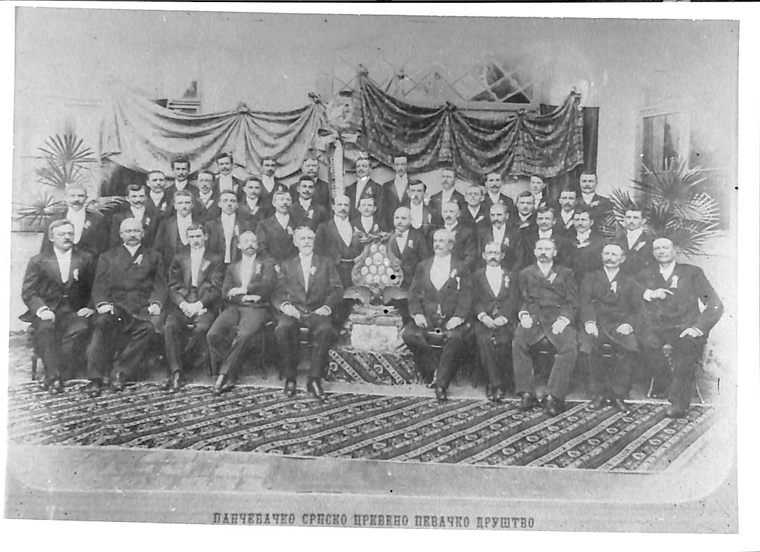 Serbian Church Singing Society from Pančevo, celebrated its 50th anniversary